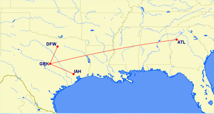 Route Map of destinations from Killeen-Fort Hood Regional Airport